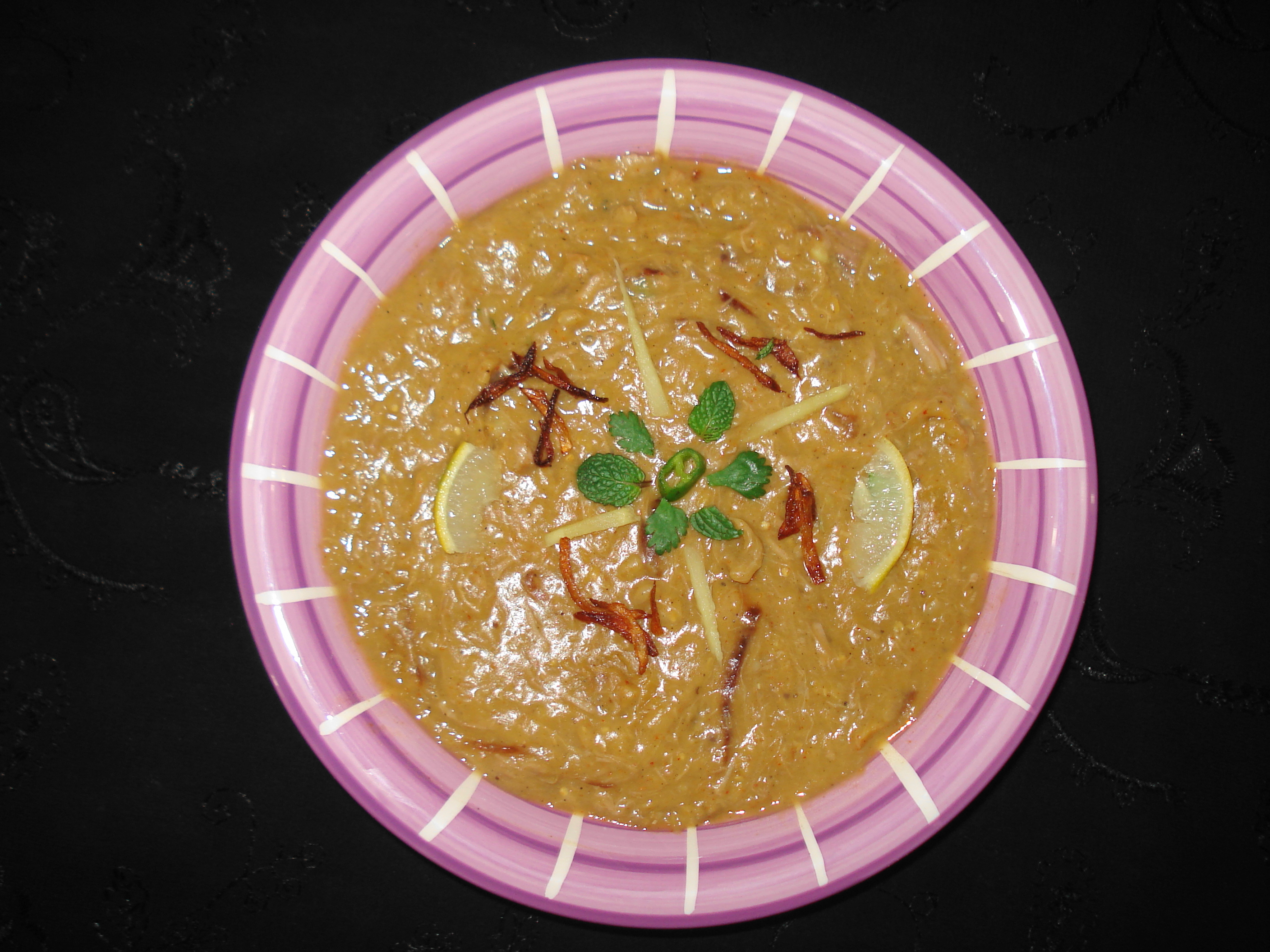 Haleem is a popular snack especiaaly in Muharram, the first month of Islamic calander